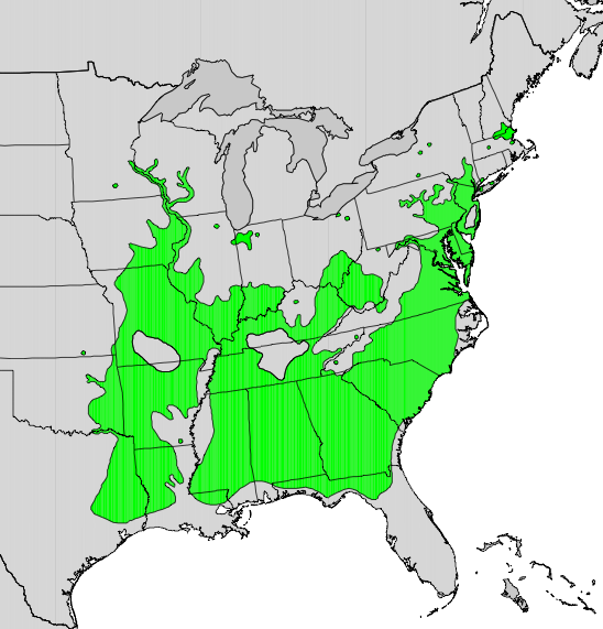 Range map of Betula nigra